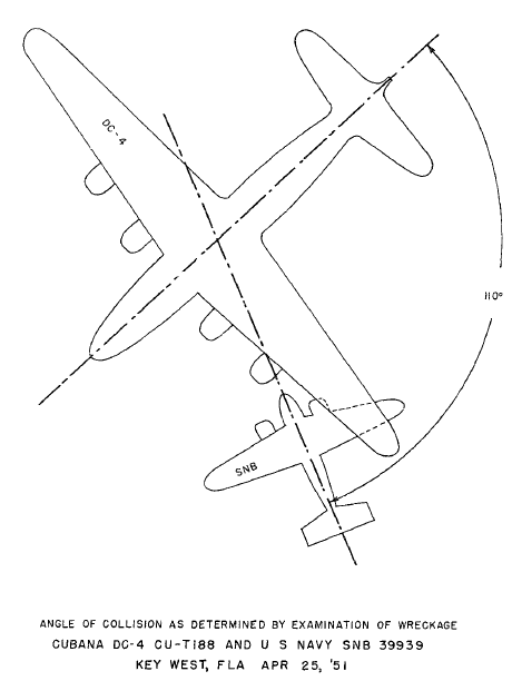 ANGLE OF COLLISION AS DETERMINED BY EXAMINATION OF WRECKAGE CUBANA DC-4 CU-T188 AND U. S. NAVY SNB 39939 KEY WEST, FLA APR 25, 1951